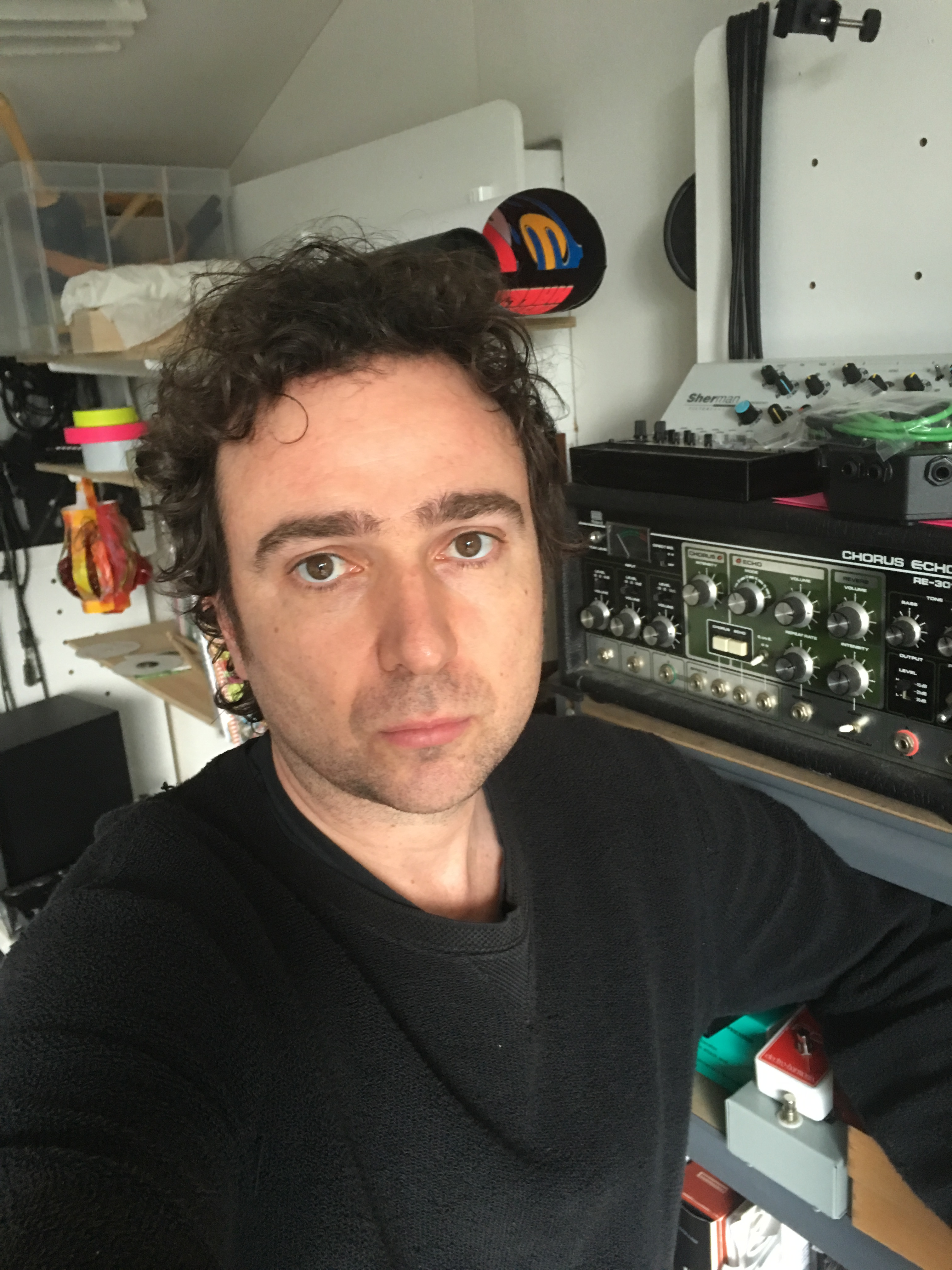 Moyes in studio 2018